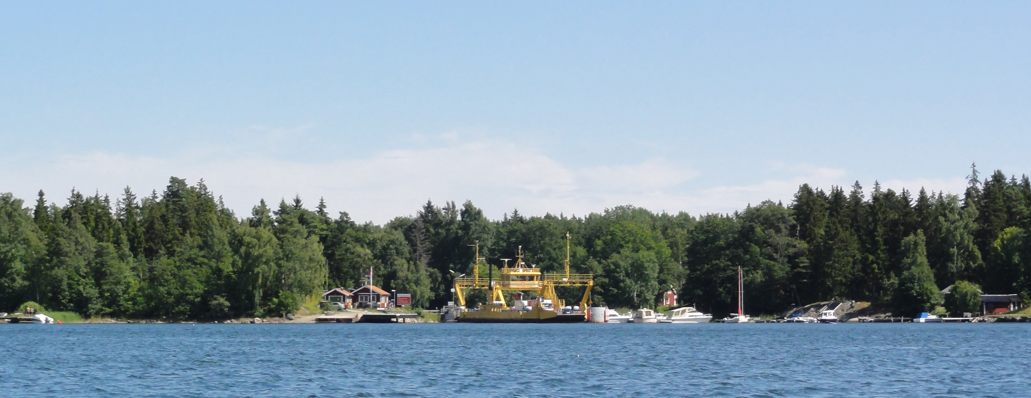 Norrsund, Blidö, Yxlan-Blidö car ferry landing stage in Stockholm archipelago